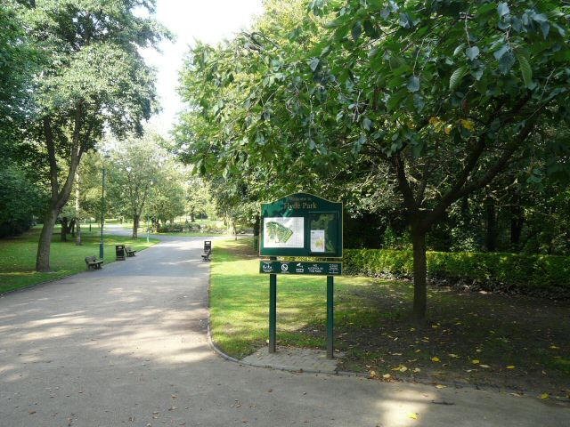 Hyde Park Entrance The Park Road entrance to Hyde Park, Hyde.